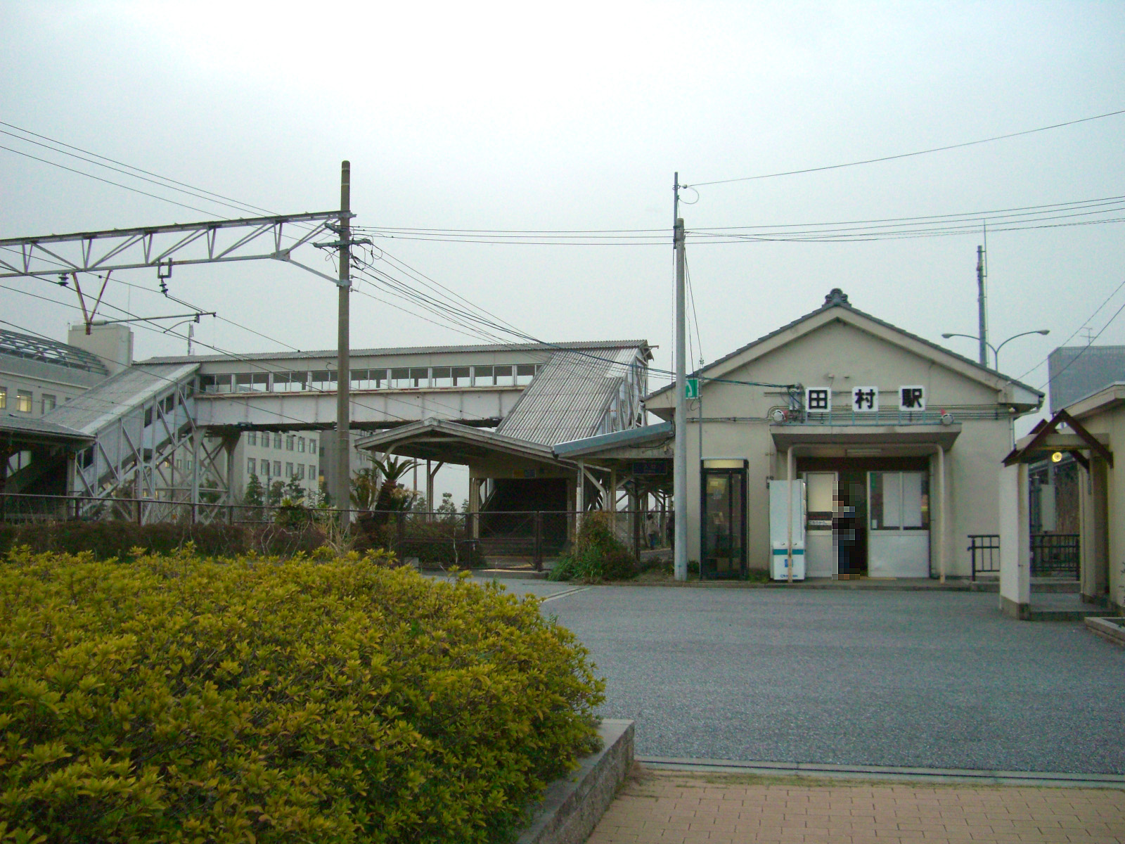 West Japan Railway Hokuriku Main Line （Biwako Line） Tamura Station Station Building 西日本旅客鉄道 北陸本線（琵琶湖線） 田村駅 駅舎